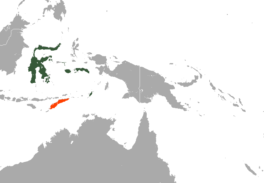 Pallas's Tube-nosed Fruit Bat (Nyctimene cephalotes) range (green — extant, orange — probably extinct)